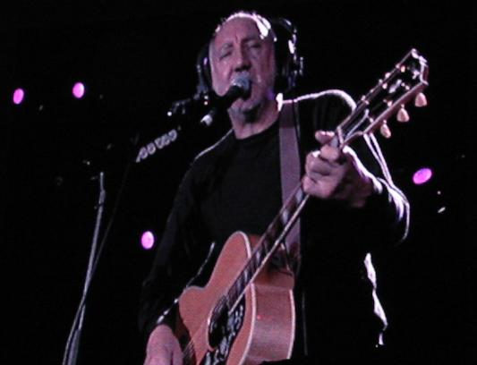 Pete Townshend on the acoustic guitar